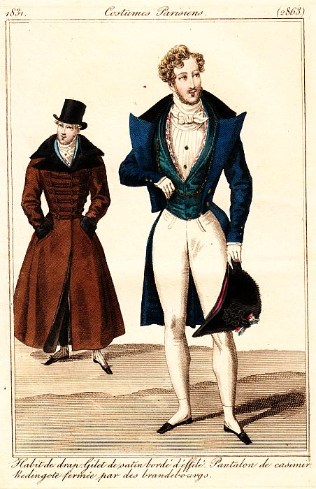 Newest Paris dandy's fashion, 1831. Redingote closed with brandebourgs, top hat. Woollen tailcoat, satin waistcoat with flowery borders, cashmere trousers (and a bicorne).